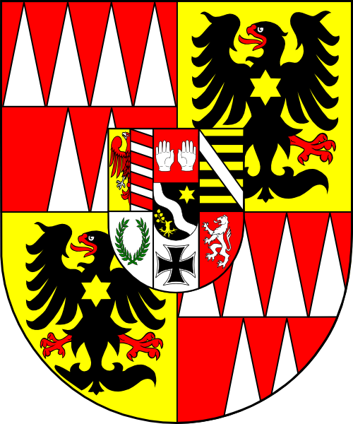 Coat of arms (shield only) of Wolfgang Hannibal cardinal von Schrattenbach, bishop of Olomouc, Czech republic (1711 - 1738).